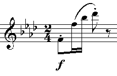 Symphony No. 6 in F major Op. 68 "Pastoral Symphony" - IV "Storm", Allegro (several bars)